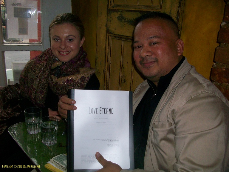 Actress and singer Bonnie Piesse discussing Love Eterne with director Joseph Villapaz. Photo by Joseph Villapaz. This photo may be used, modified and published for any purpose, only if the photographer is visibly credited in each instance in which it is used. (See licensing information below.) Publication of this photo without proper attribution constitute copyright infringement. For more information on my photos, you can contact me here.